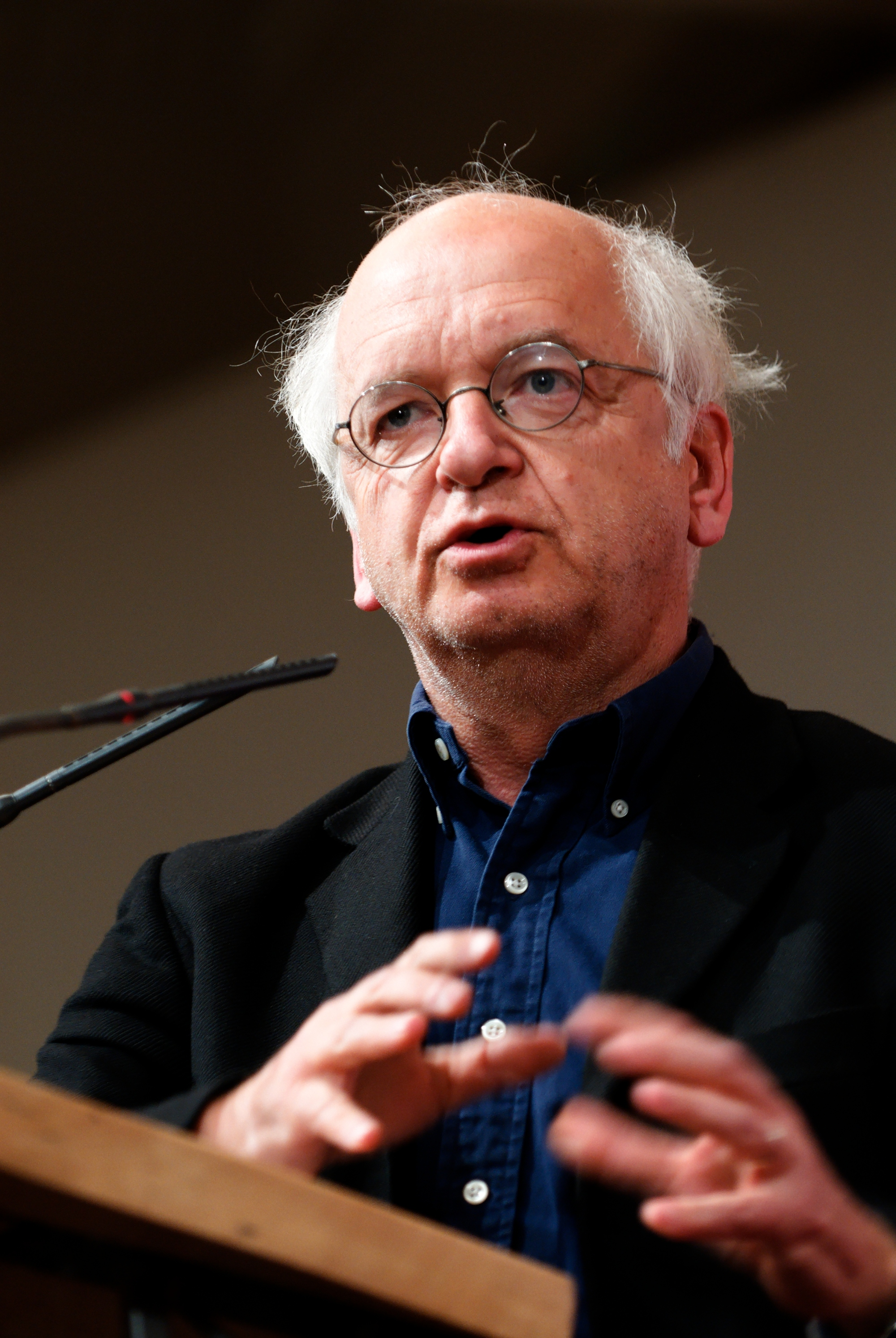 Érik Orsenna. Political rally on March 3, 2008 at the Maison de la Mutualité (Paris) for Lyne Cohen-Solal's campaign in the 2008 Paris town elections.